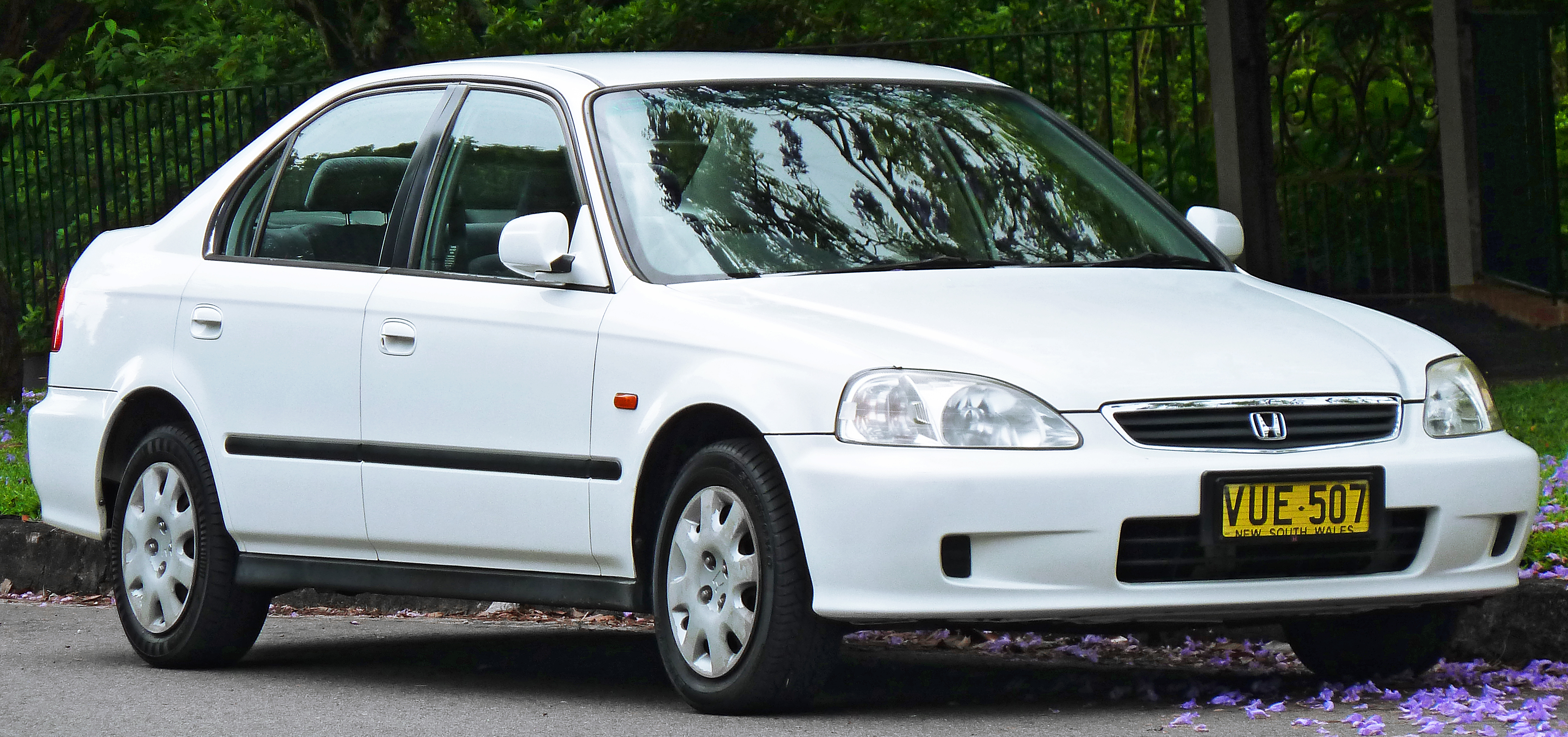 1999 Honda Civic GLi sedan. Photographed in Gordon, New South Wales, Australia.